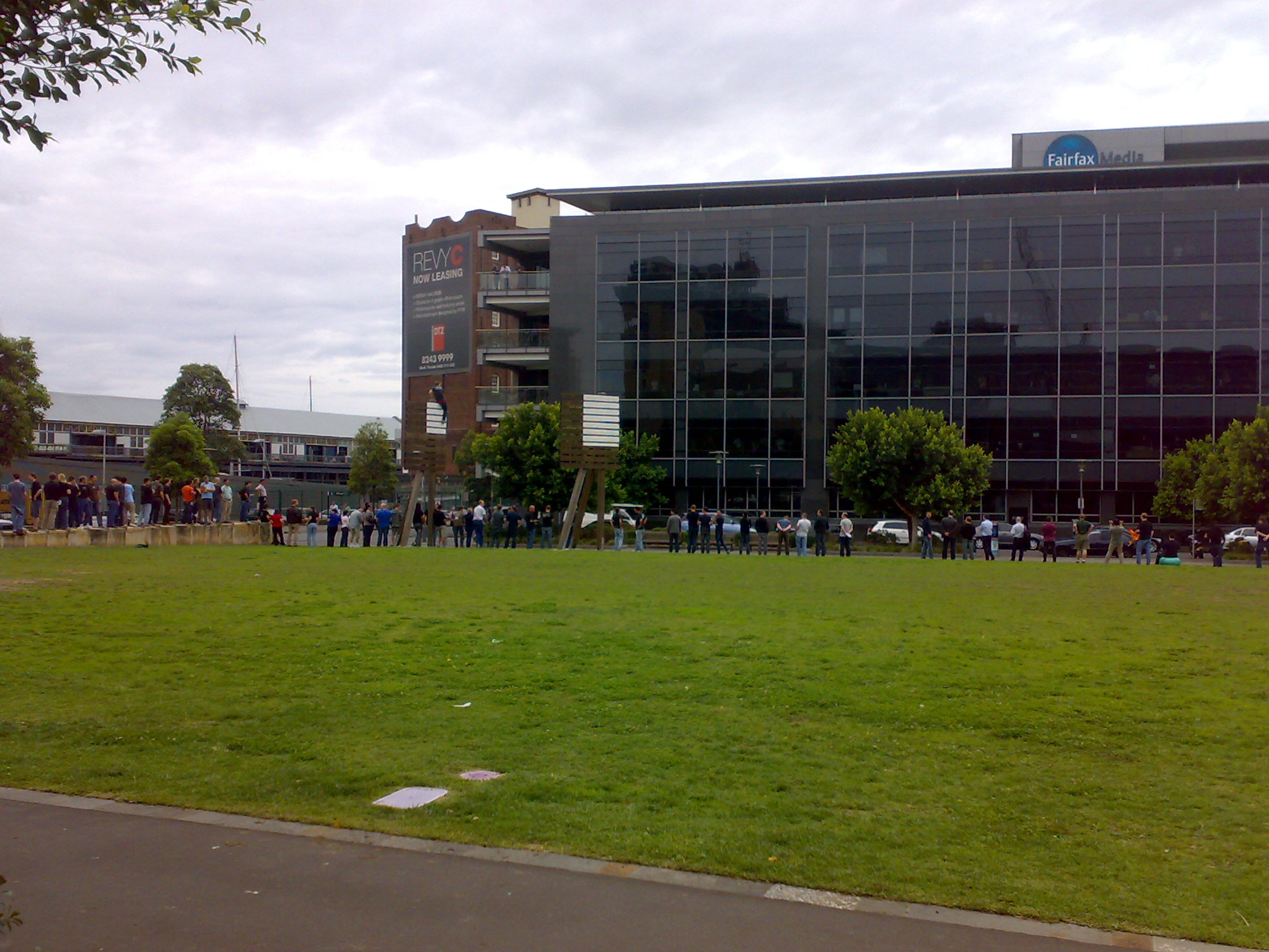 Fairfax Media building, Pyrmont, NSW